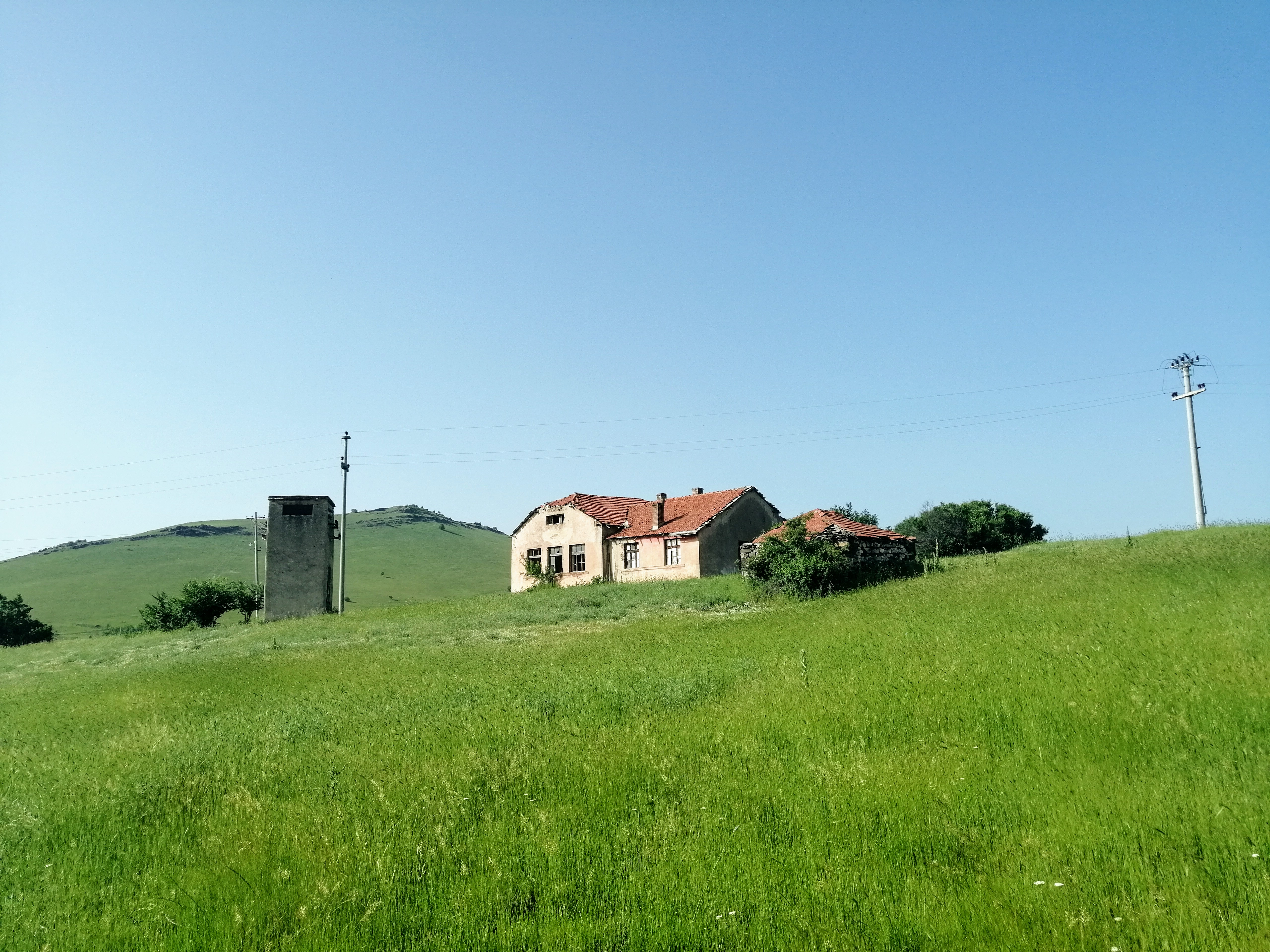 View of the primary school in the village Mojno